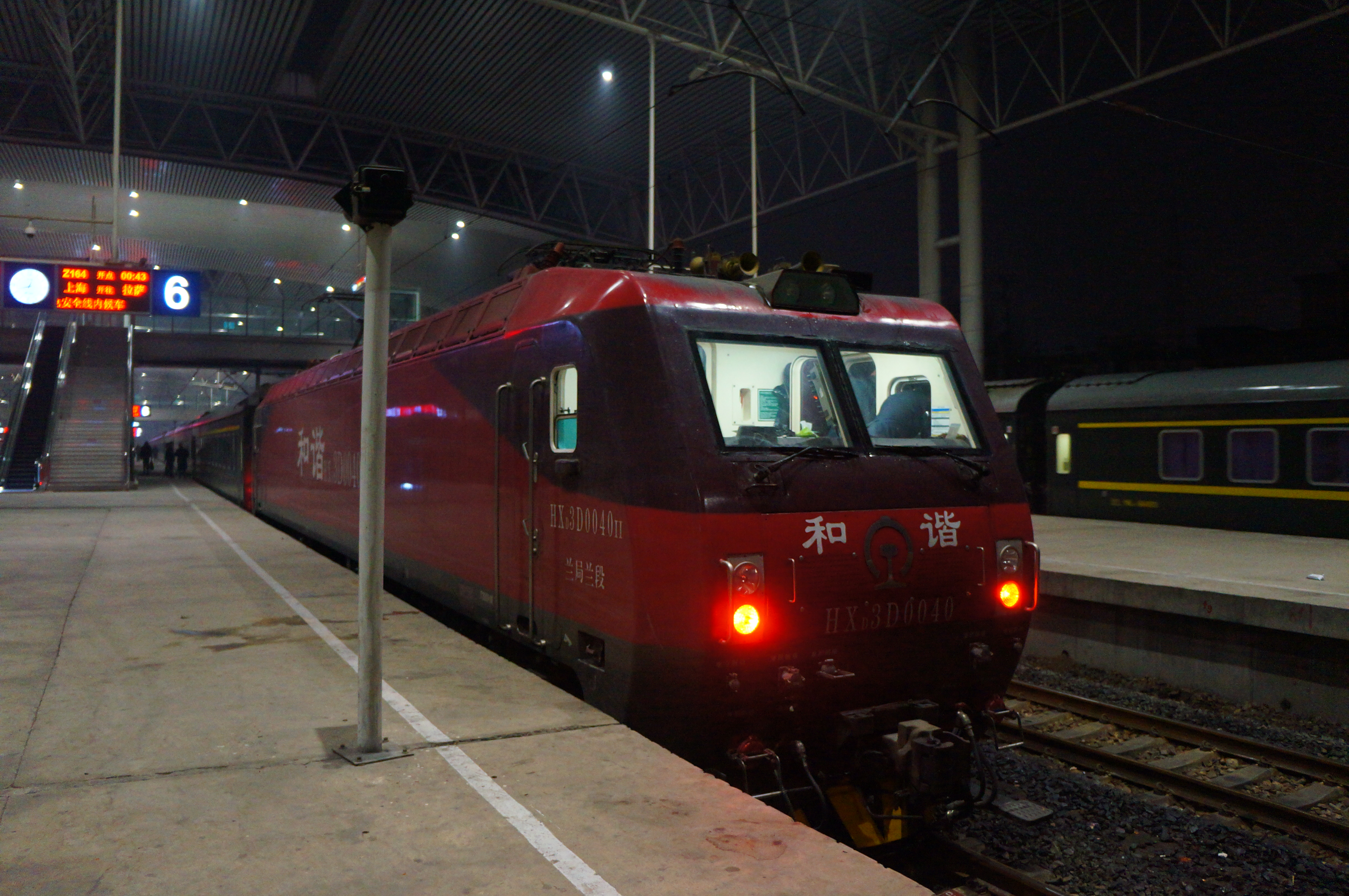 201812 HXD3D-0040 hauls Z164 at Bengbu Station